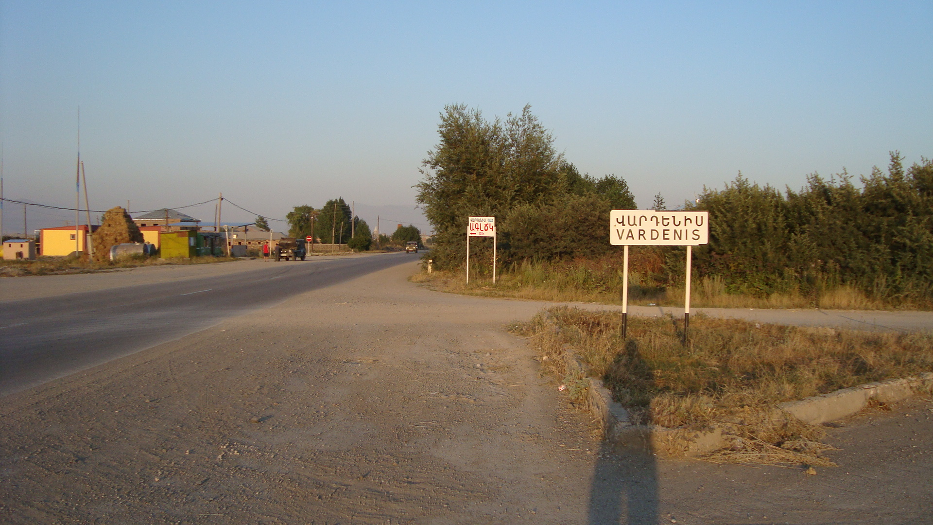 Entrance to the city. Location: Vardenis, Gagharkunik marz (region), Republic of Armenia.